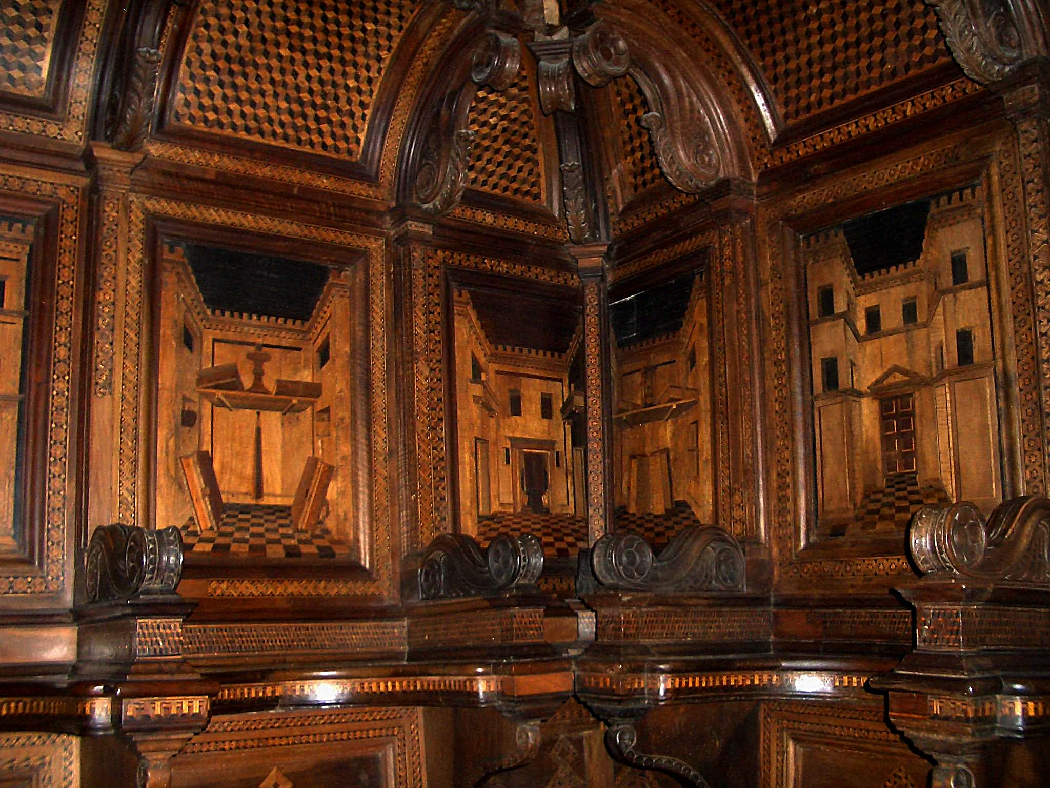 Abbey of Rodengo Saiano, Cristoforo Rocchi, intarsia of the choir stalls, 1480